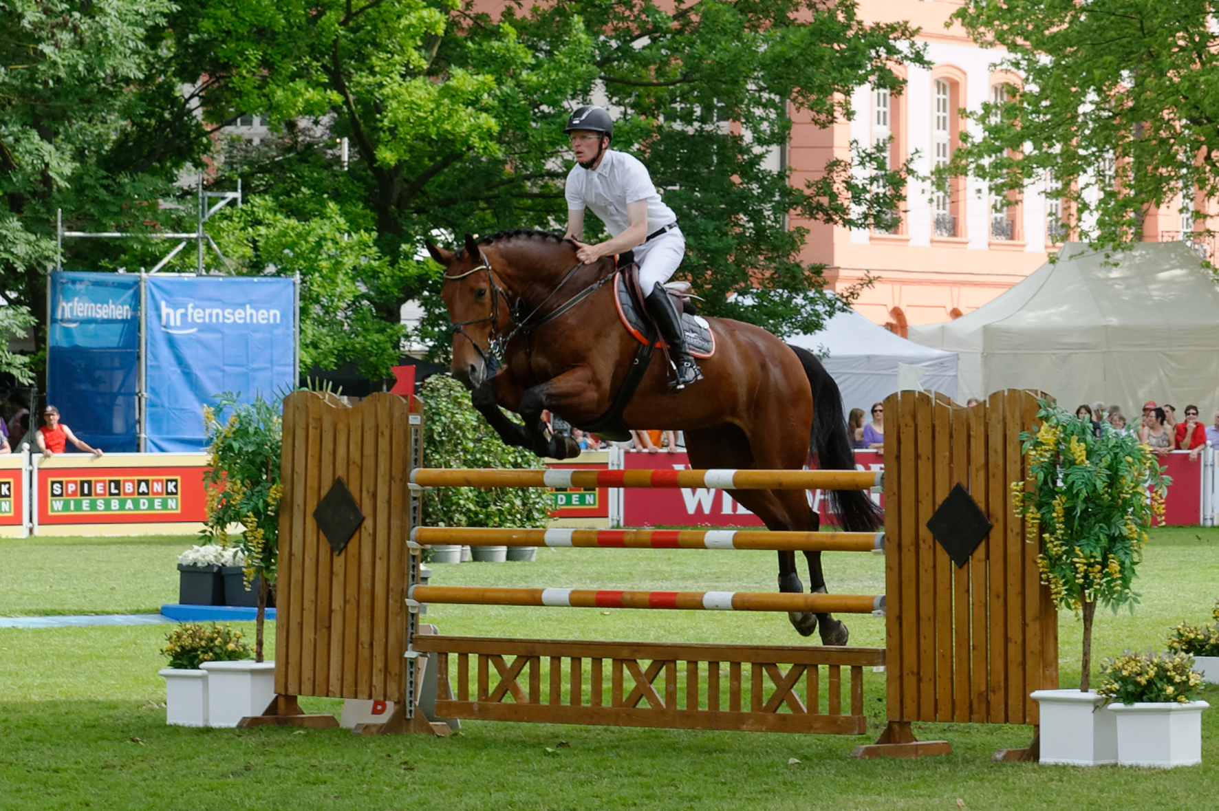 Internationales Pfingstturnier Wiesbaden 2014 The making of this document was supported by the Community-Budget of Wikimedia Germany.